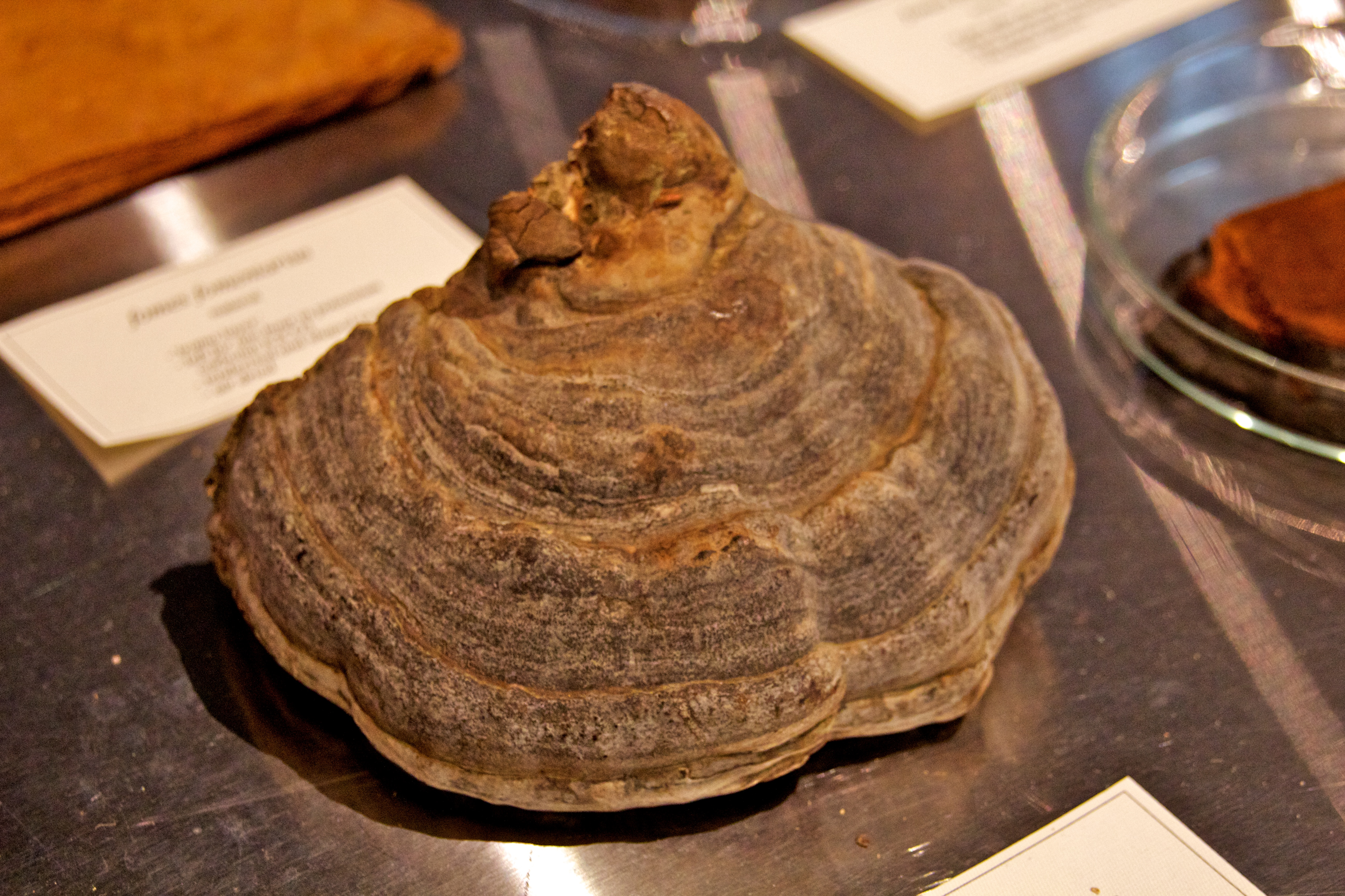 "fomes fomentarius … is a parasitic fungus which is often named horse's hoof fungus or tinder fungus. It can be found in North America and Europe, typically on birch, but also on beech". At GLAMcamp Amsterdam.